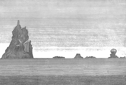 Drawing of Ball’s Pyramid, Lord Howe Island Group, Tasman Sea